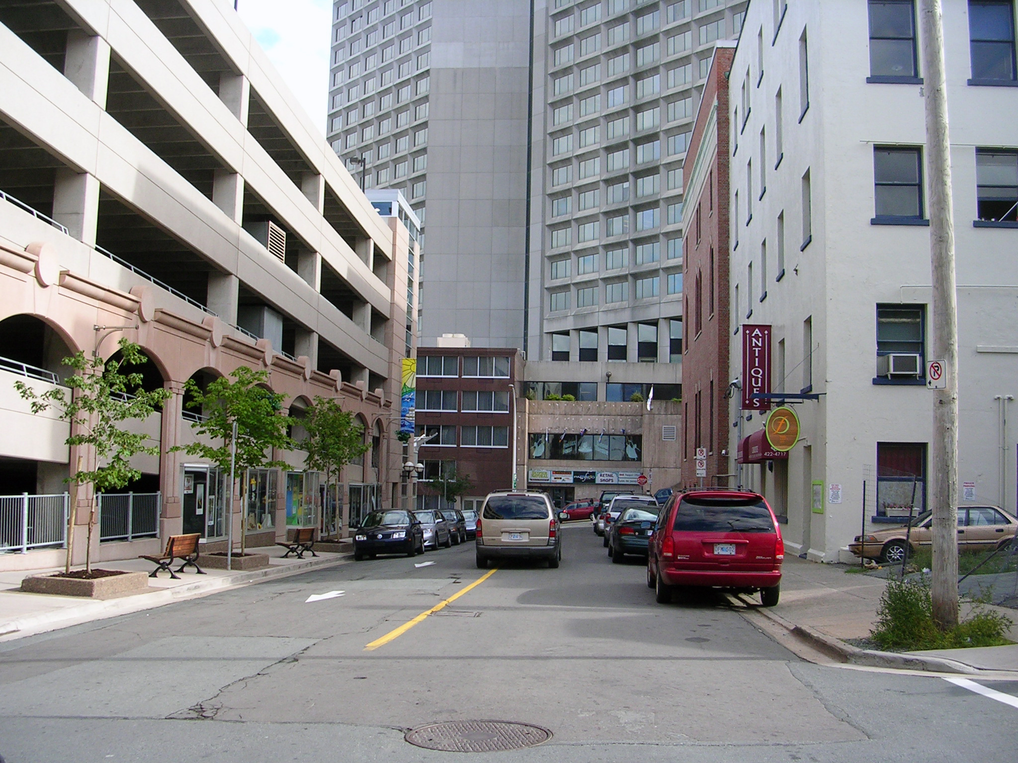 Granville street in Halifax, Nova Scotia, looking South. Image taken on September 4th, 2004 at approximately 16:21:32 (AST) with Nikon Coolpix 3200.